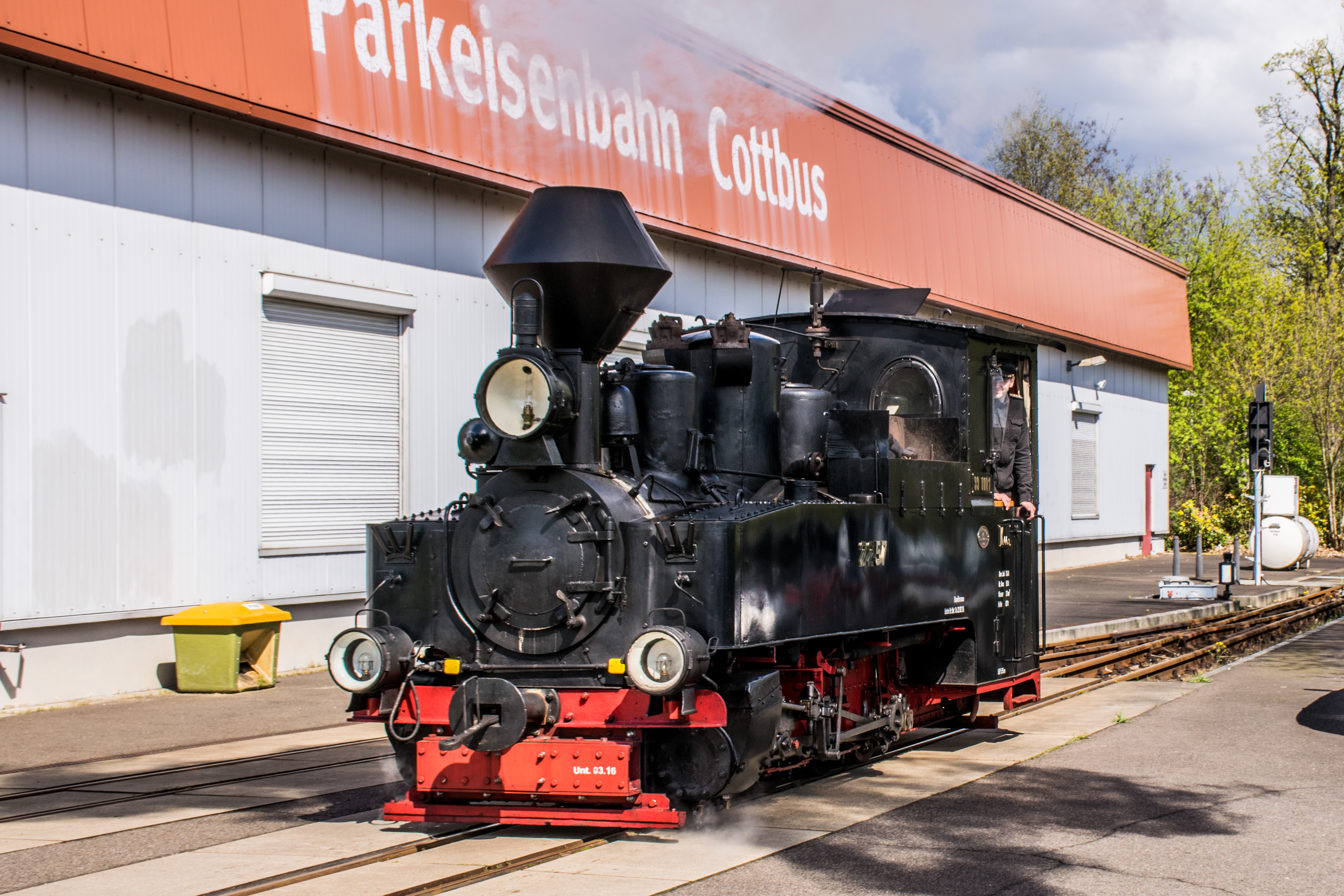 Brigadelok 99 0001 Linke-Hoffman 1739/18 formerly at coal mine. (Braunkohlenwerk 'Frieden' in Halbendorf between Weisswasser and Forst connecting to DR standard and narrow gauge). It is believed to have been in industrial service in Poland between the wars but, by 1946 was at Halbendorf. She was overhaled at RAW Cottbus in 1954 for the Park.